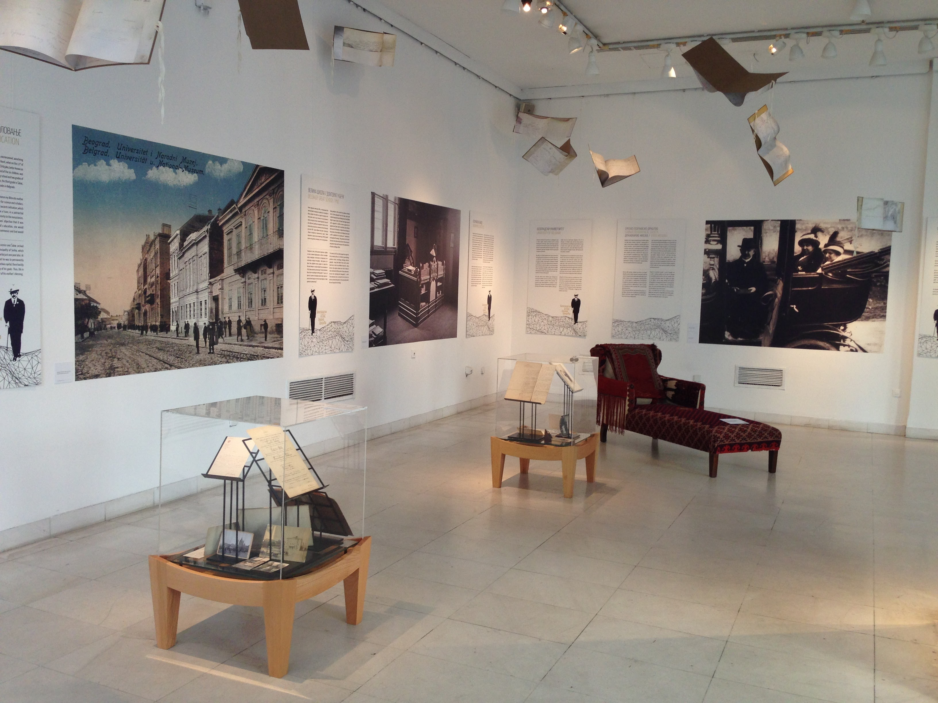 Gallery of the Serbian Academy of Arts and Sciences, Belgrad Serbia Српски (ћирилица): Галерија Српске академије наука и уметности, Београд, Србија